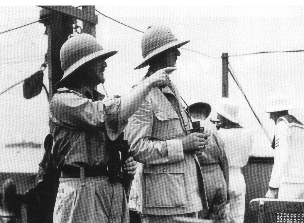 General Spears and General de Gaulle en route for Dakar aboard the Dutch liner 'Westernland'